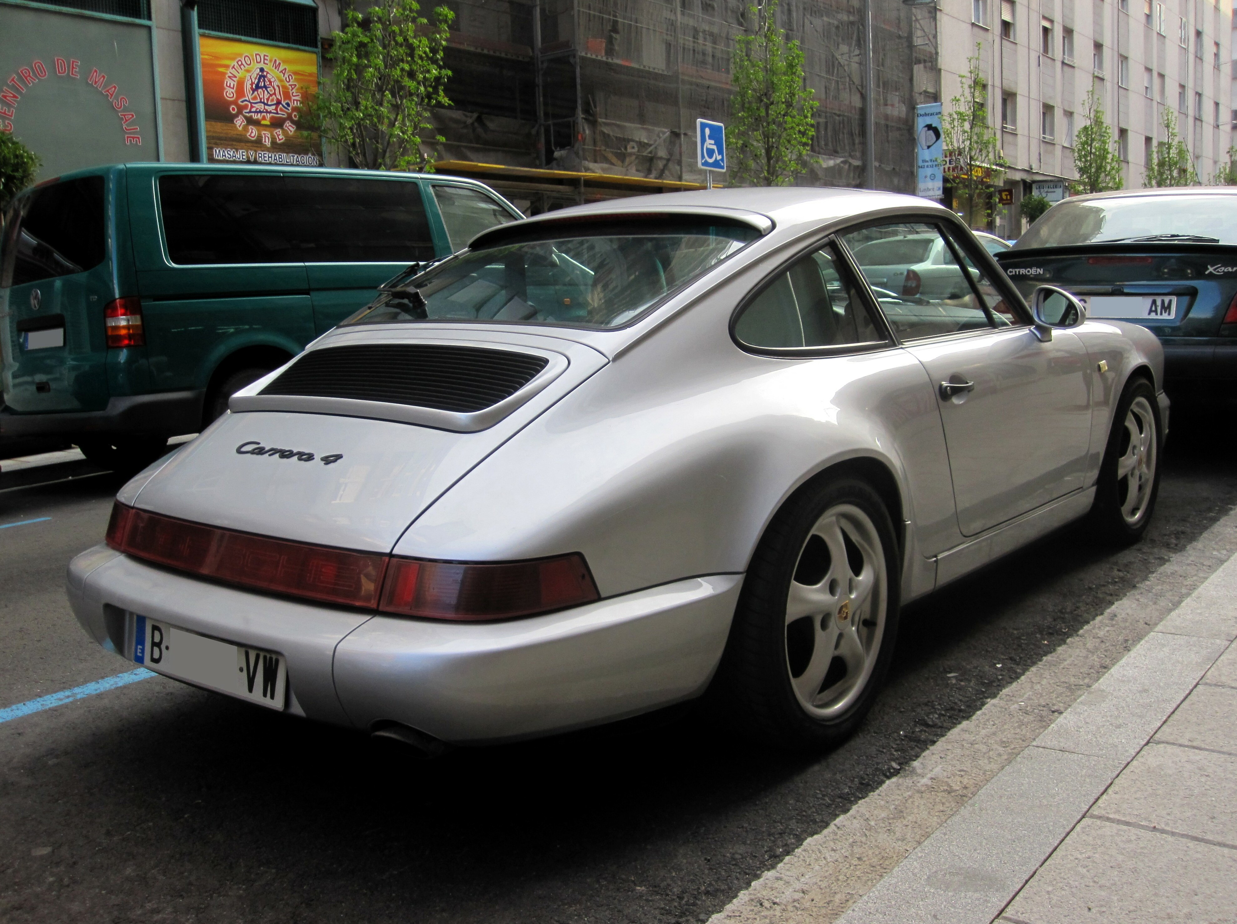 1999 Barcelona Cataluña) plates, too new for it. Seen in Santander (Cantabria).